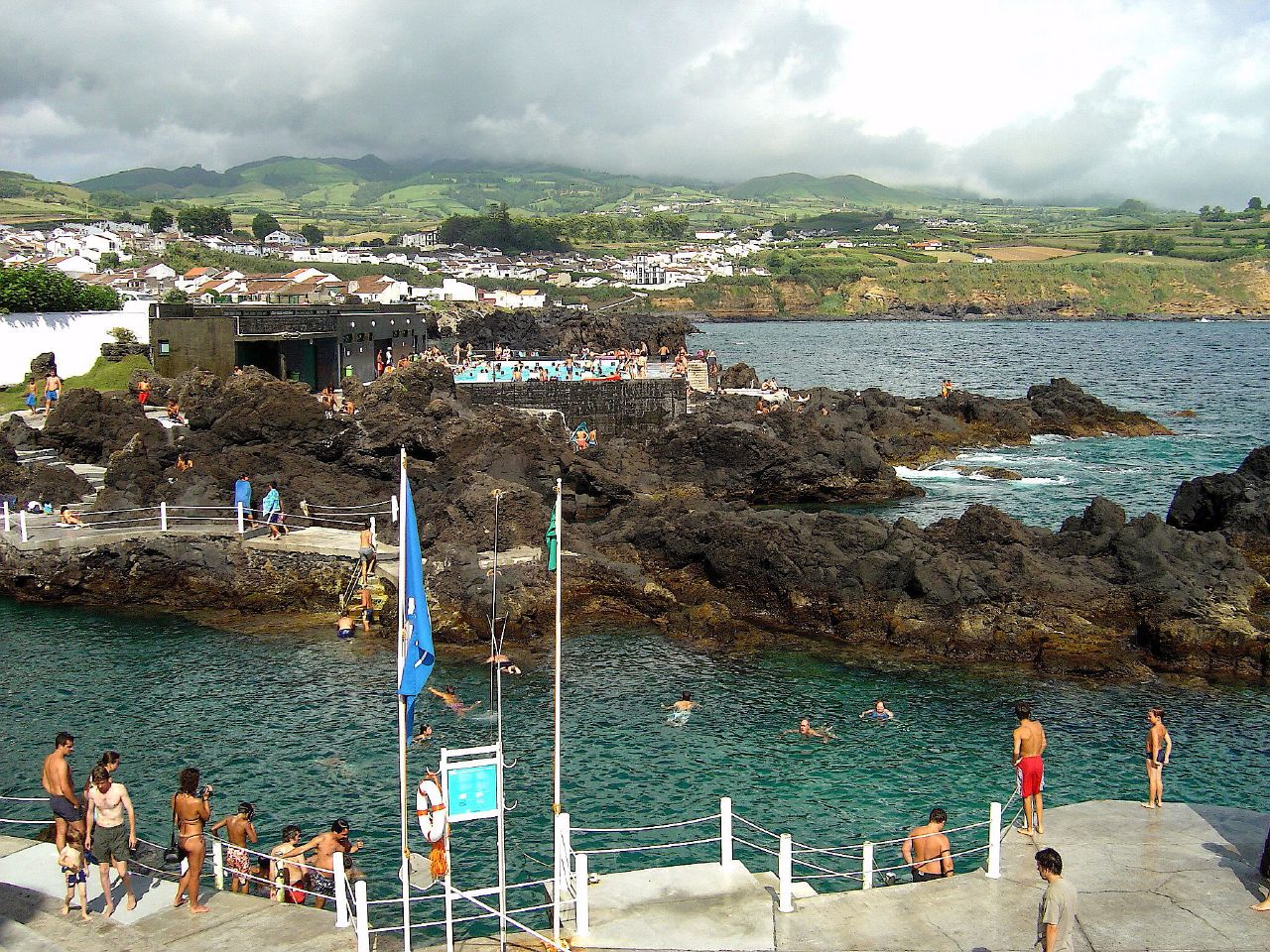 Ilha de S. Miguel See where this picture was taken. [?]